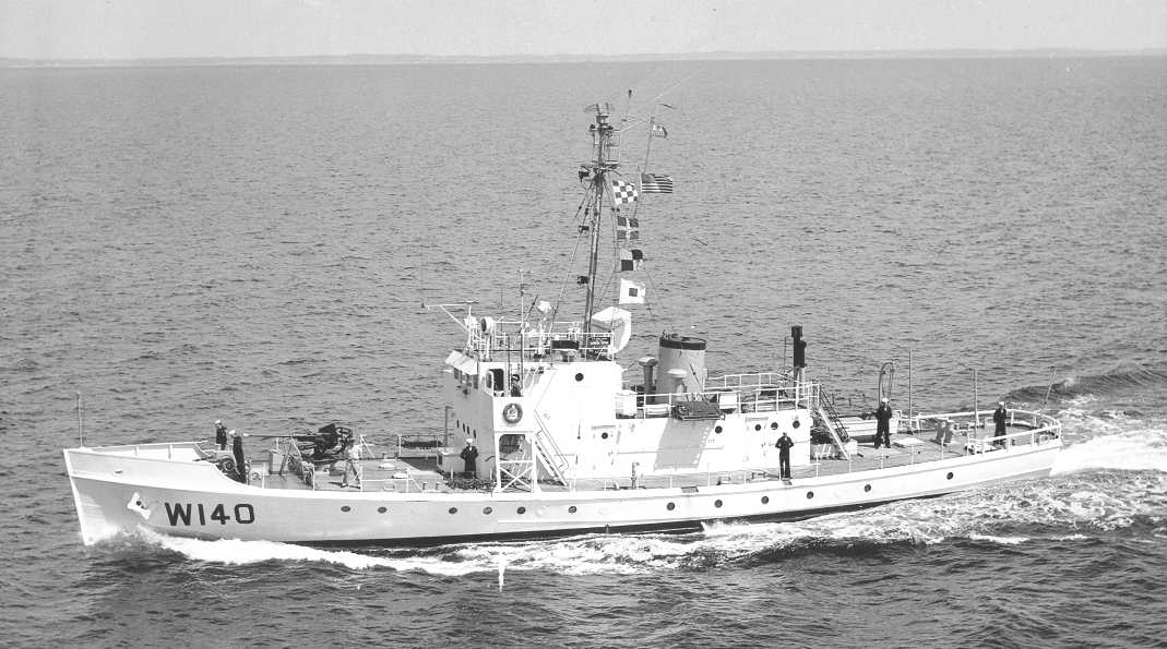 USCGC General Greene (WSC-140; WMEC-140); no caption; Photo No. 1CGD-05296102; 1st Coast Guard Dist., Boston, 13. Mass.; 1962; photographer unknown. General Greene was the fourth cutter to bear the name of the famous Revolutionary War general. She was in service from 1927 through 1968 and served in Massachusetts waters during her post-war Coast Guard career.